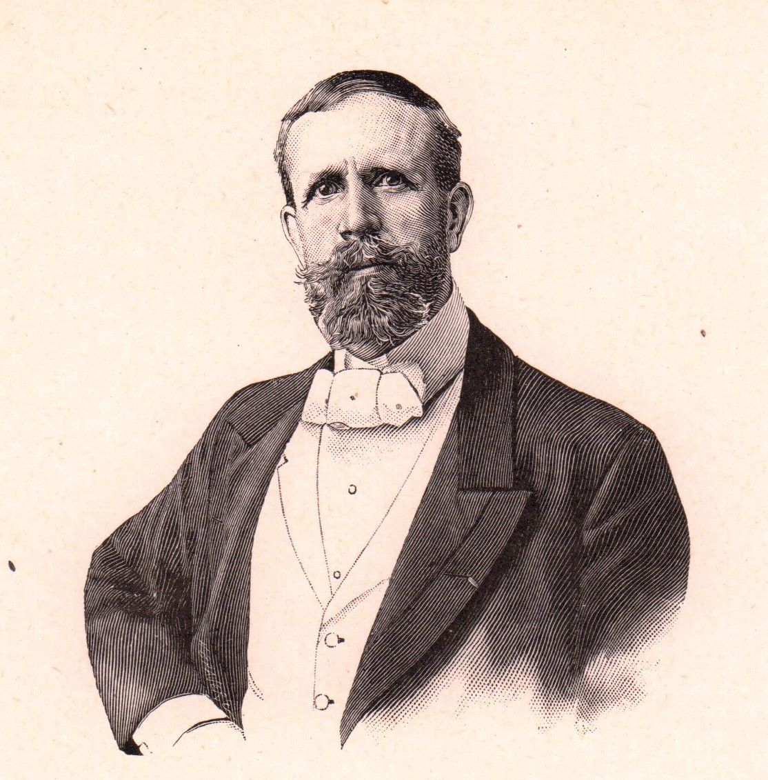 American painter Frederick Arthur Bridgman (1847-1928)